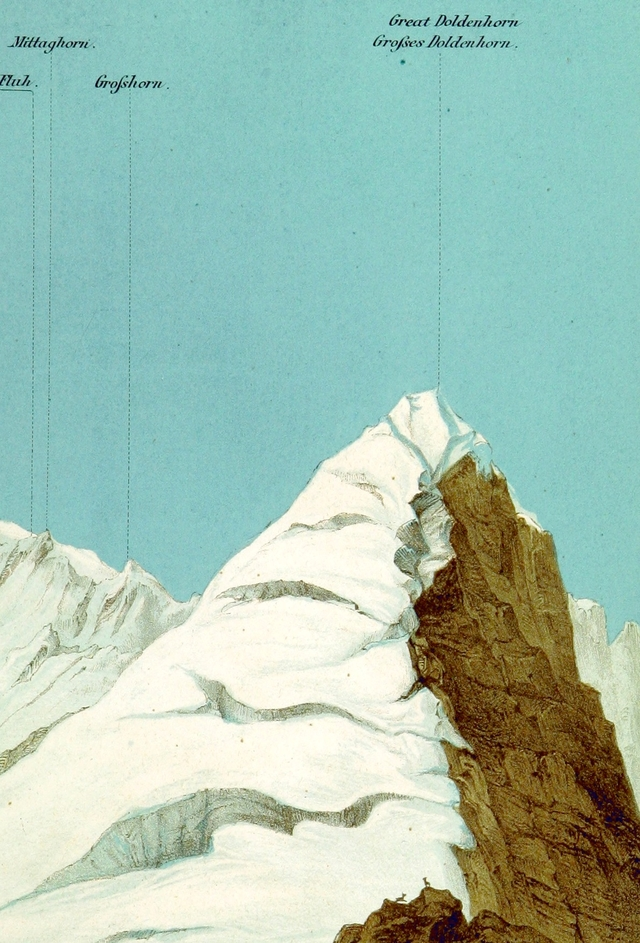 ROTH Abraham. -The Doldenhorn and Weisse Frau. Ascended for the first time by A. Roth and E. von Fellenberg. (Leipzig 1863)